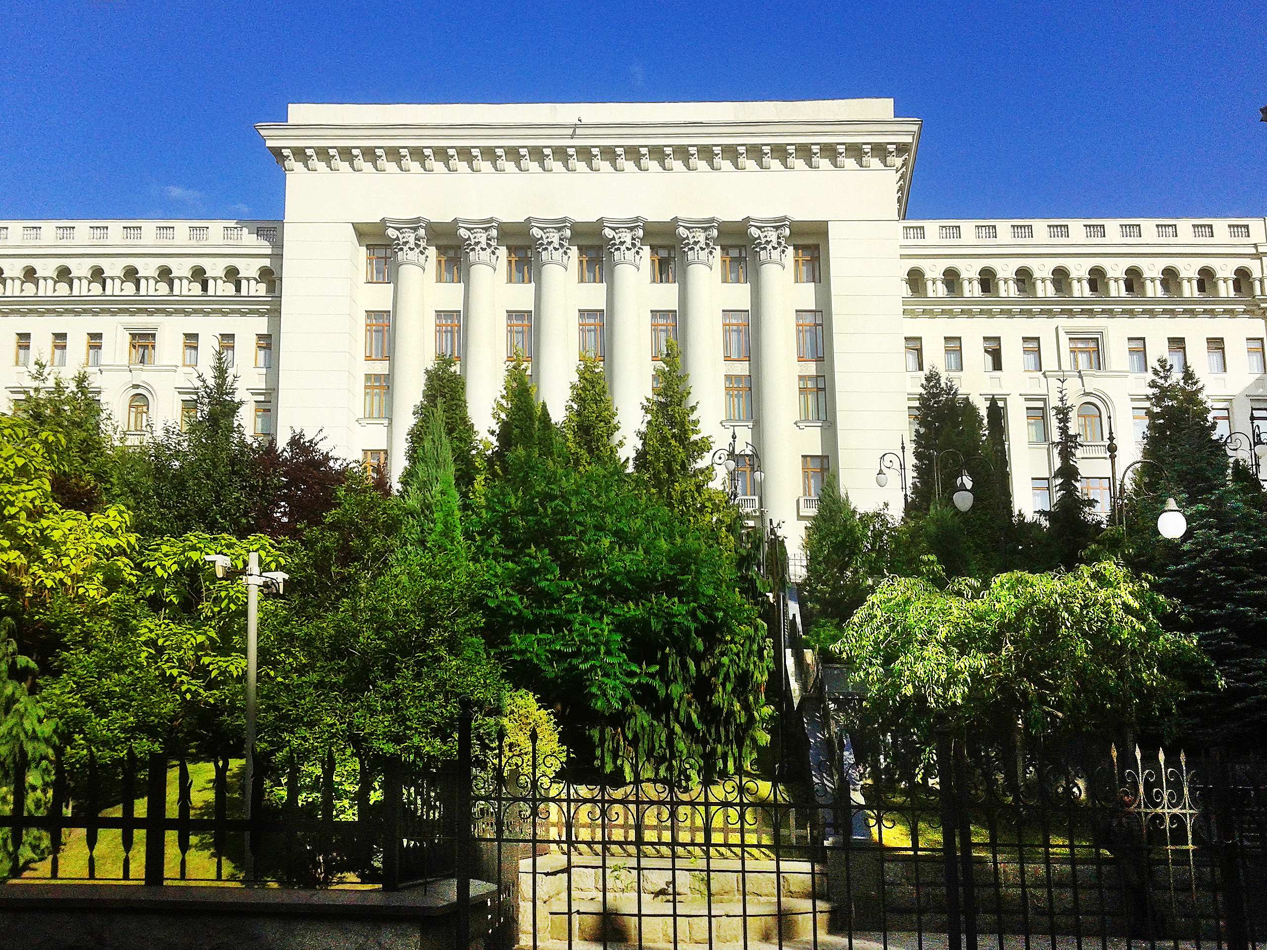 The building of the Ukrainian Presidential Administration in Kyiv